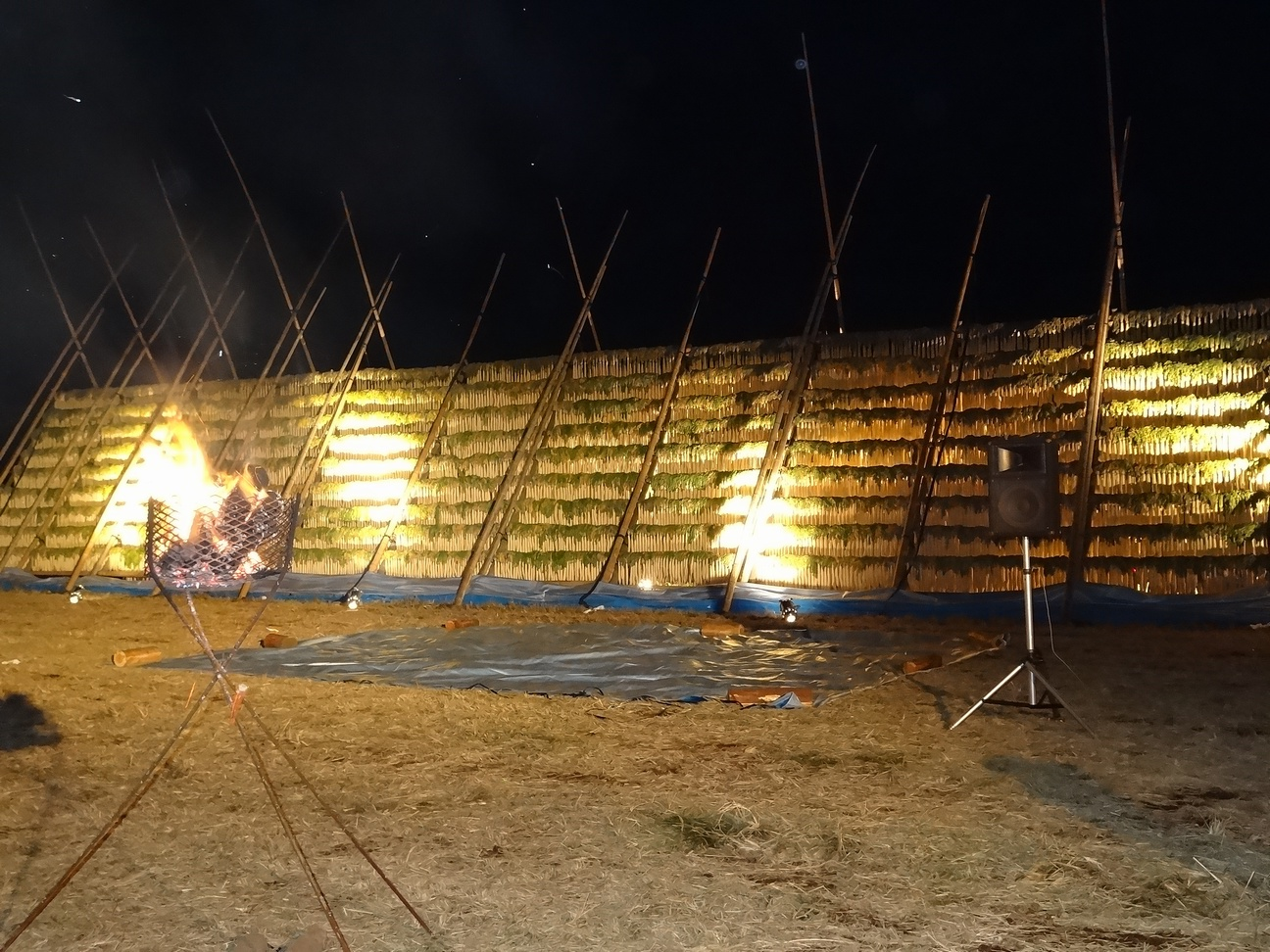 The Daikon-Yagura at Yadorihara District, Kinko Town, Kagoshima, Japan